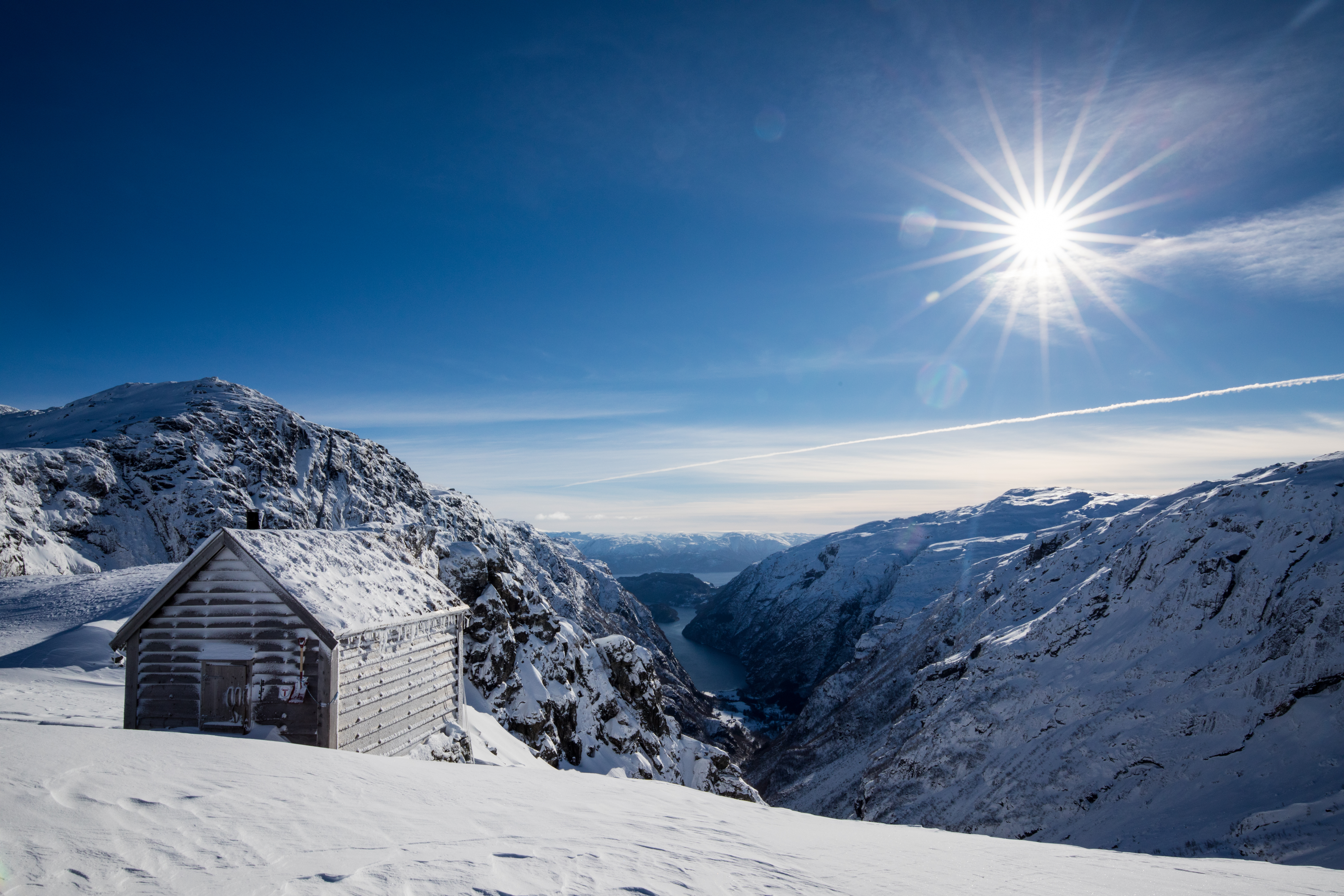 View from Sveindalseggi in Kvam, Hordaland in Western Norway. The cottage to the left is «Kiellandbu», one of Den Norske Turistforenings unattended cabins which are open for use all year. The fjord in the background is known as Fyksesund, and is part of the Hardangerfjord.